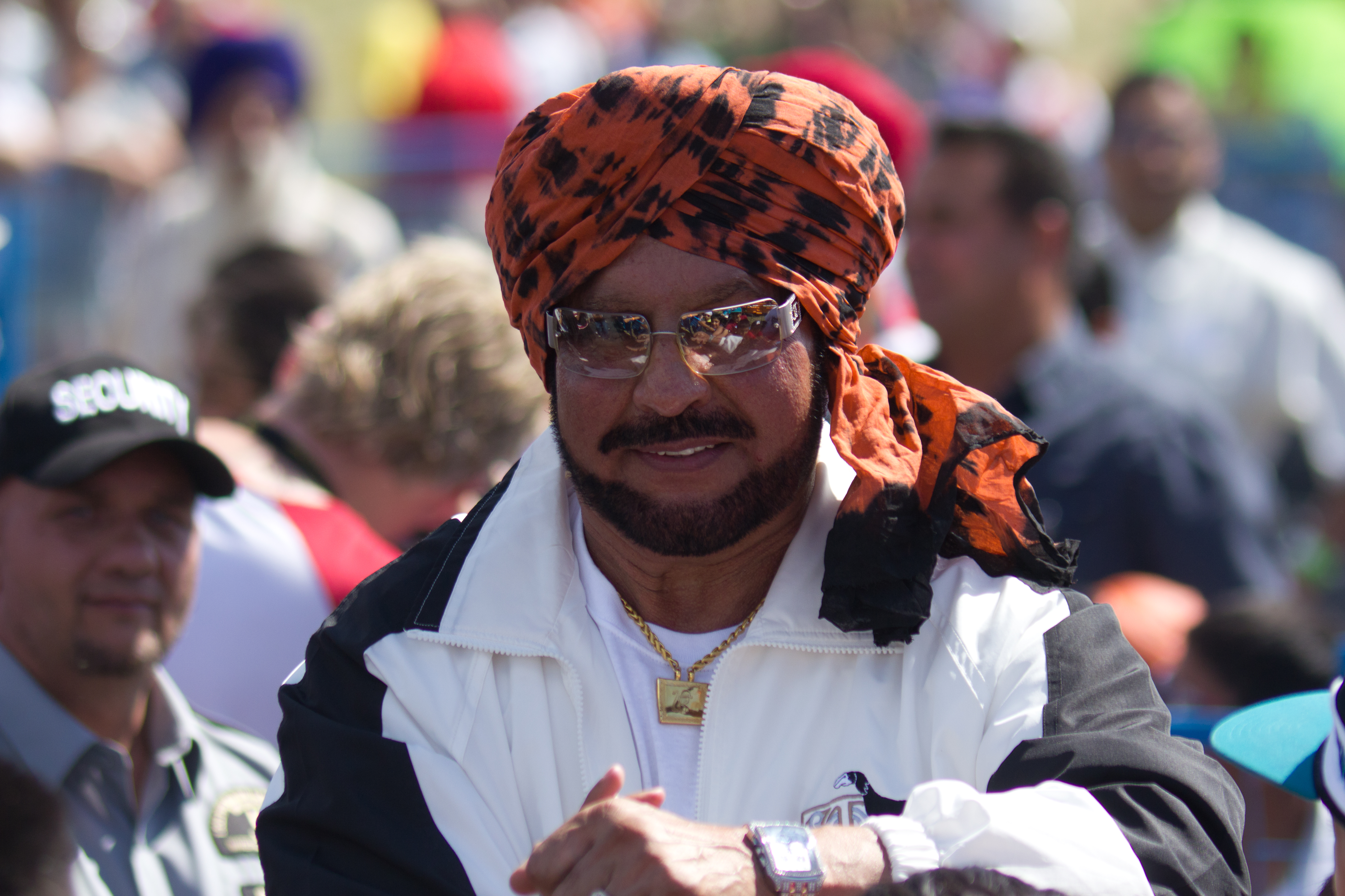 Professional wrestler Tiger Jeet Singh